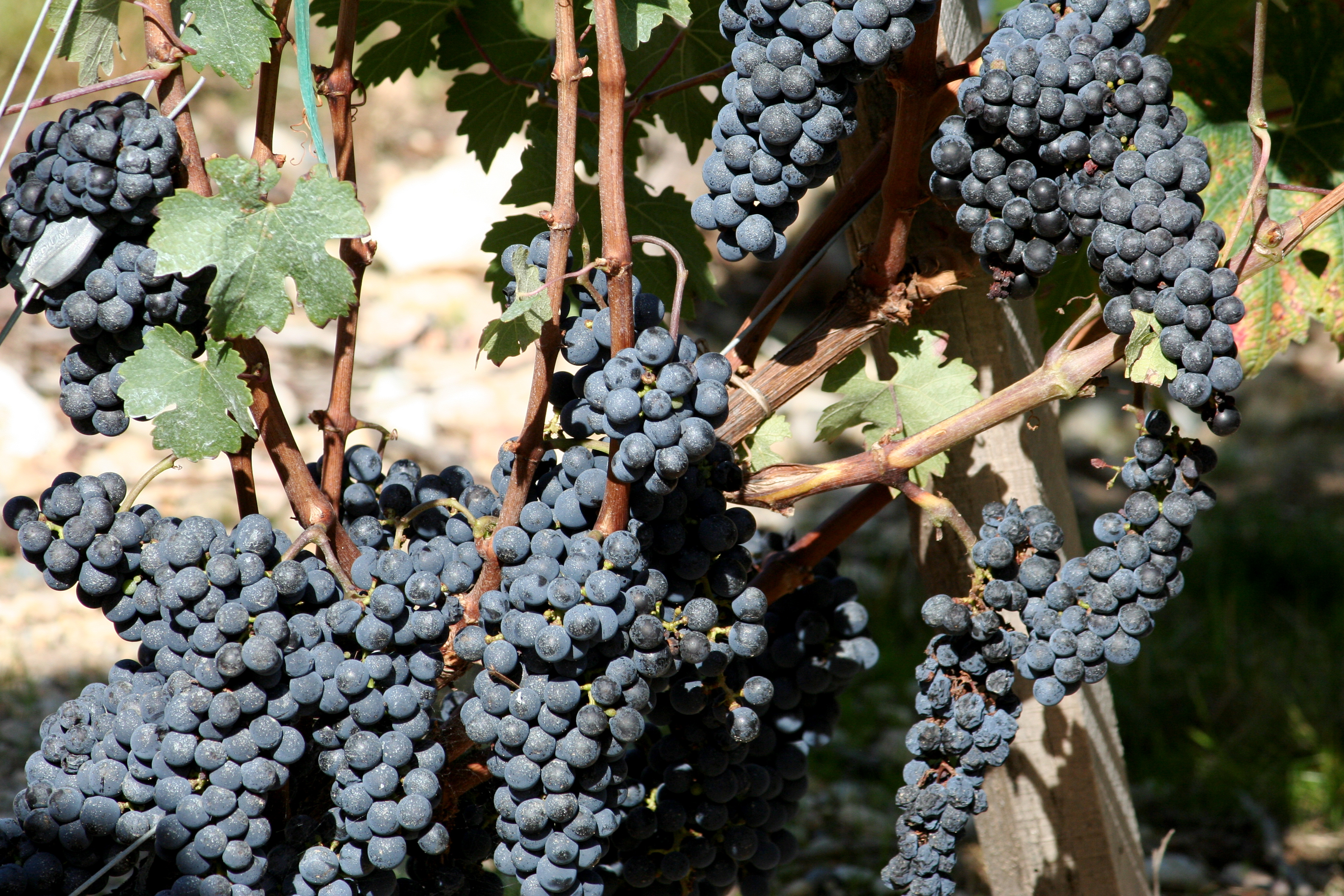 Growing in the wine region of St-Estephe in the Medoc, Bordeaux France